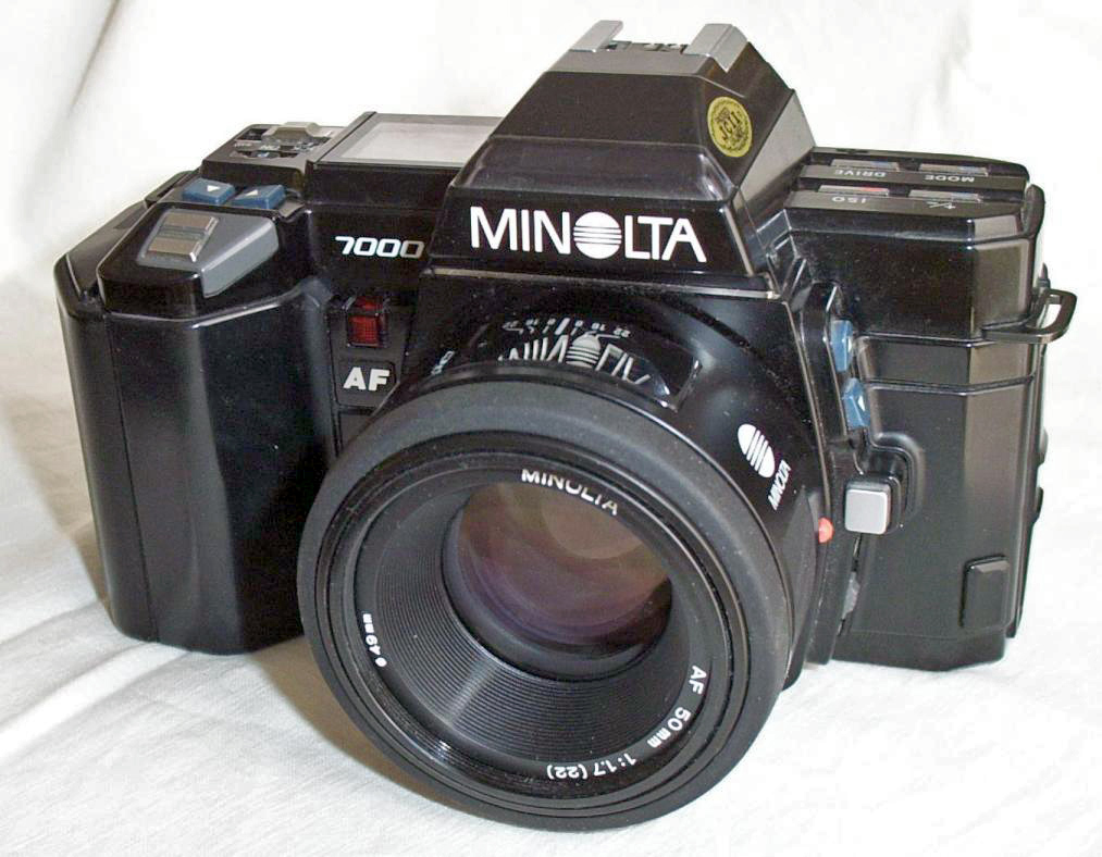 Minolta 7000 SLR with 50 mm lens.